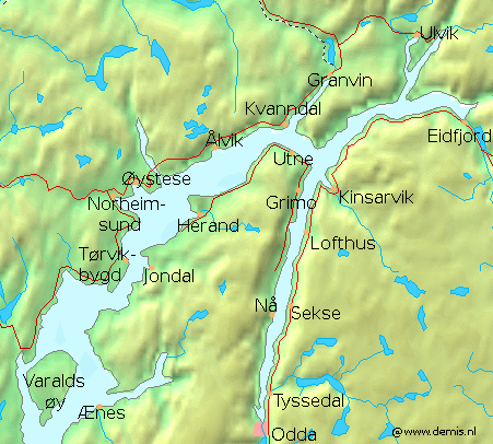 Hardanger area, Hordaland, Norway.